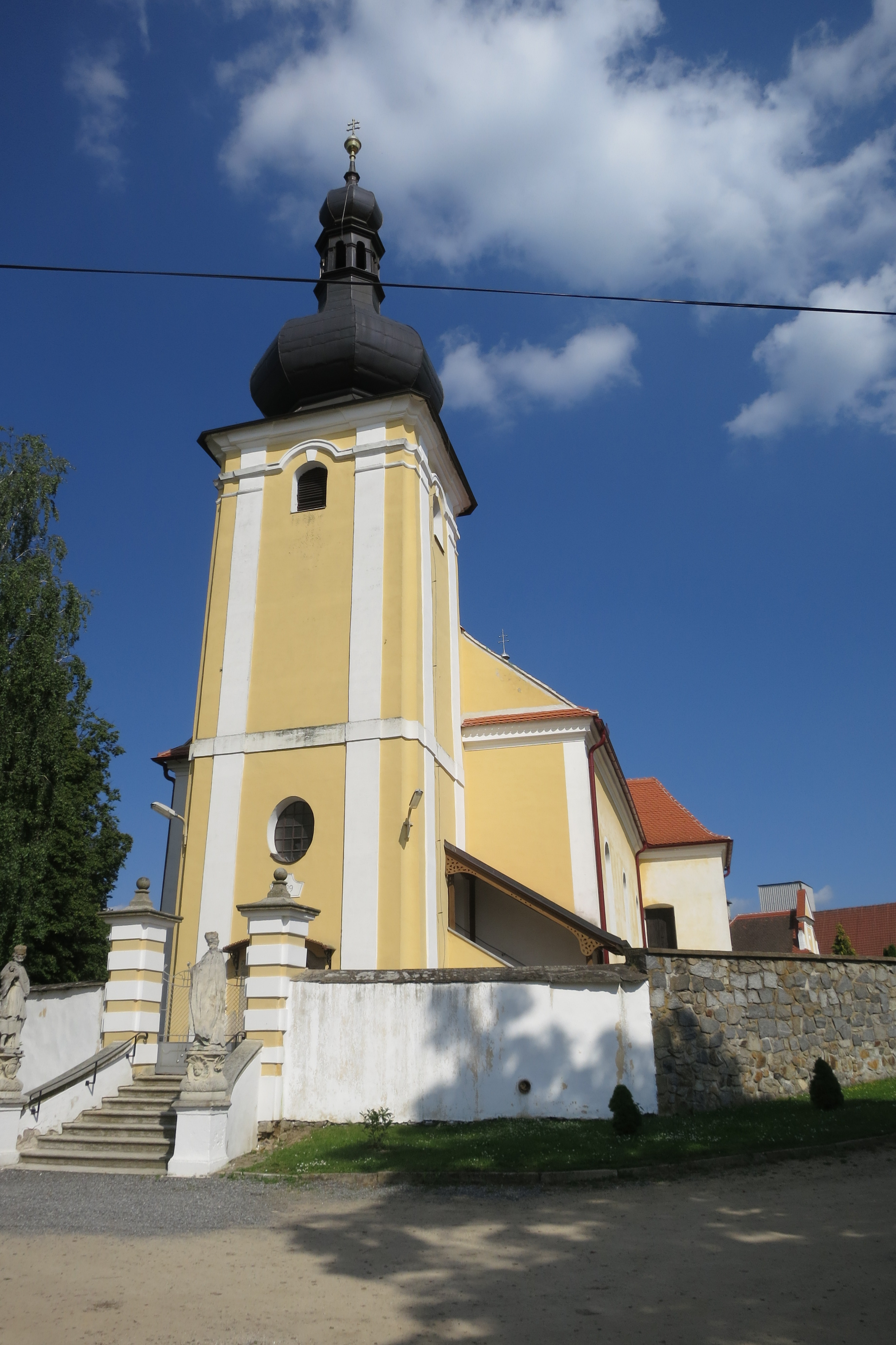 Overview of church of Saint Martin in Budkov, Třebíč District.